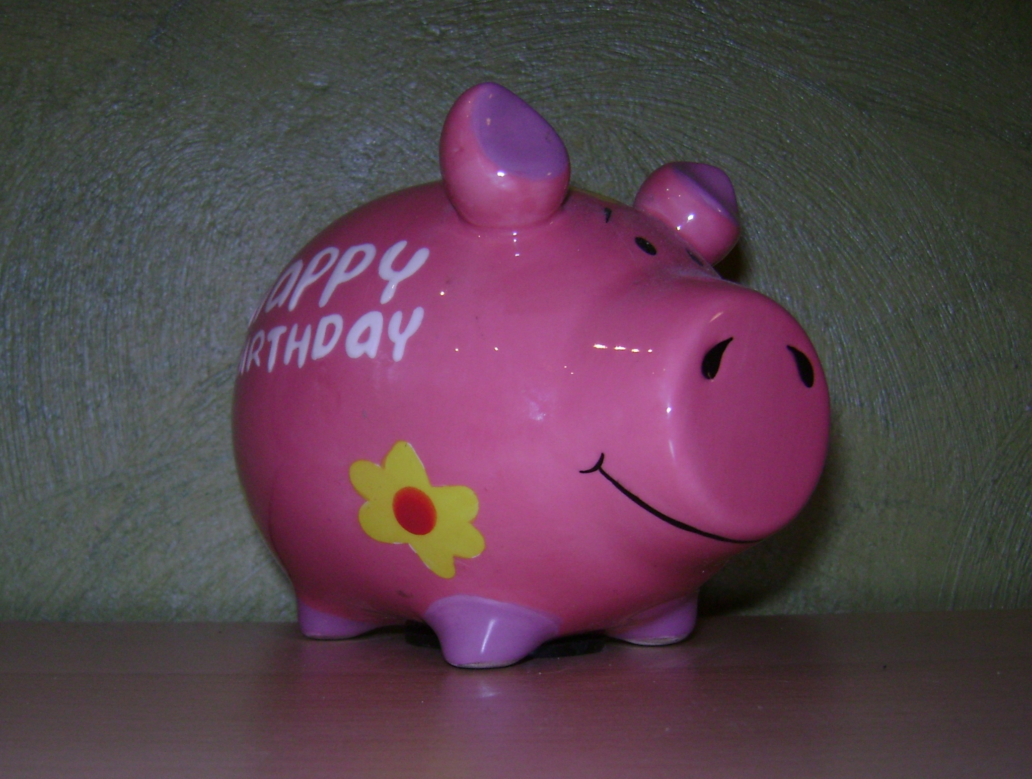 Money boxes